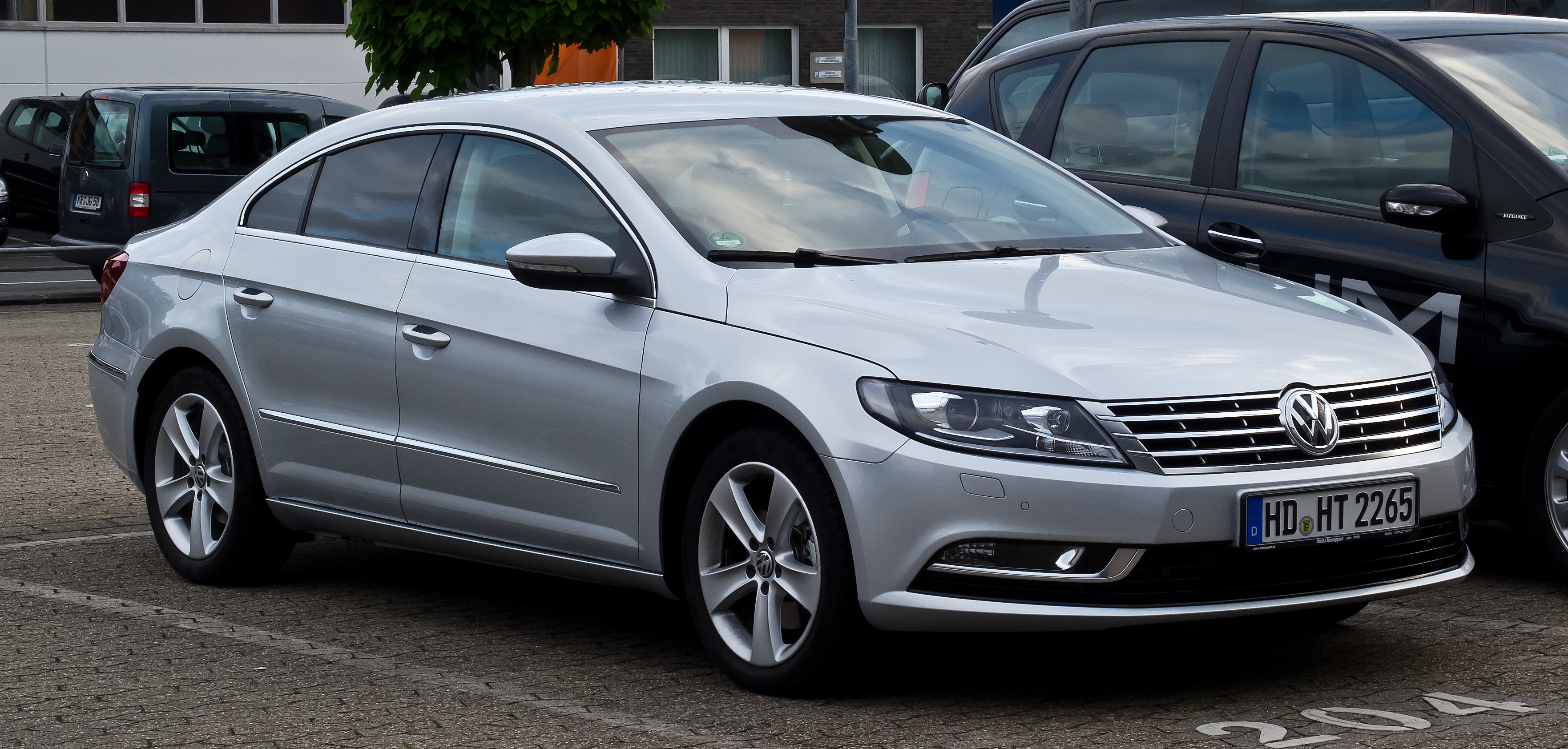 VW CC 2.0 TDI BlueMotion Technology (Facelift)